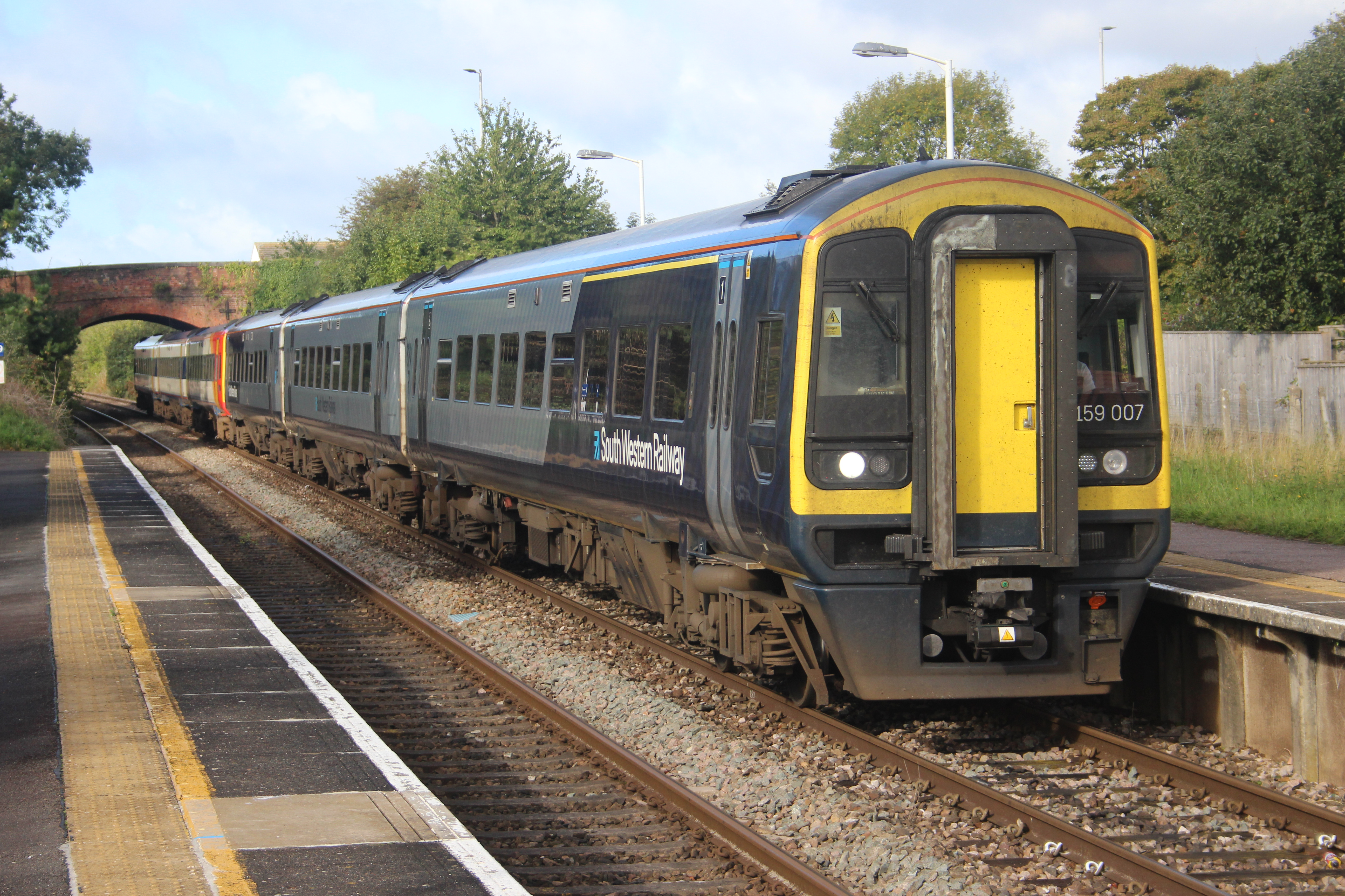 A pair of Class 159 units at Pinhoe. The front one is in one of the South Western Railway livery variants, and the rear is in one of the South West Trains livery variants. This six car train runs from Exeter St Davids to London Waterloo.